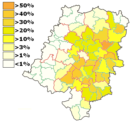 Polish parliamentary election, 2007 - Votes for the German Minority in Opole voivodship, total number of votes: 32462 (0,2% of all votes cast in Poland)